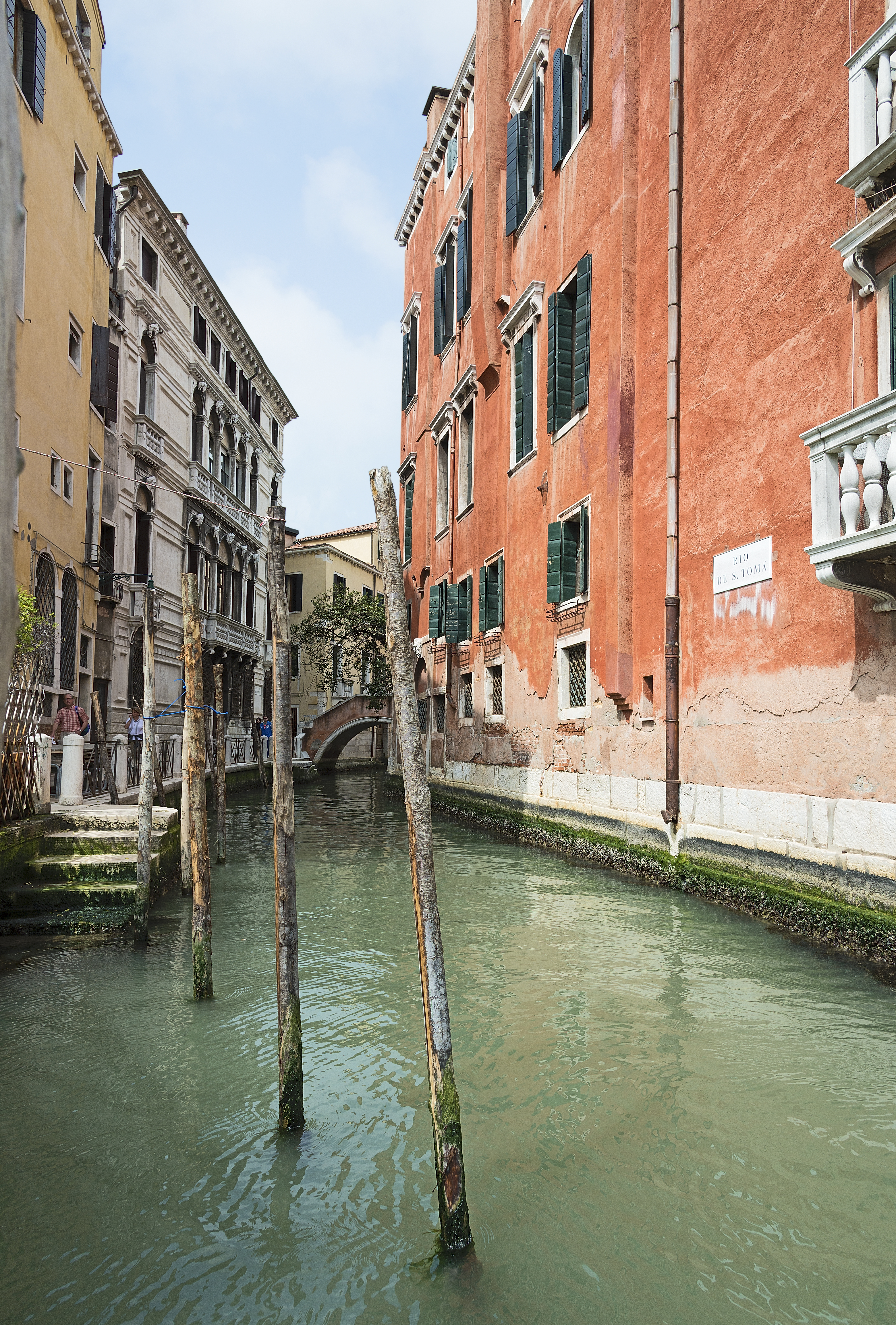 Rio di San Tomà Venice, view of the Grand Canal.